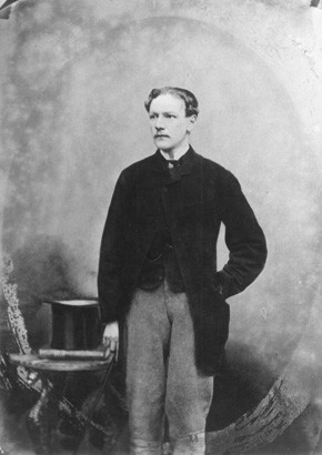 This is a photograph of C. Y. O'Connor (1842–1902), taken in Dublin in 1897.